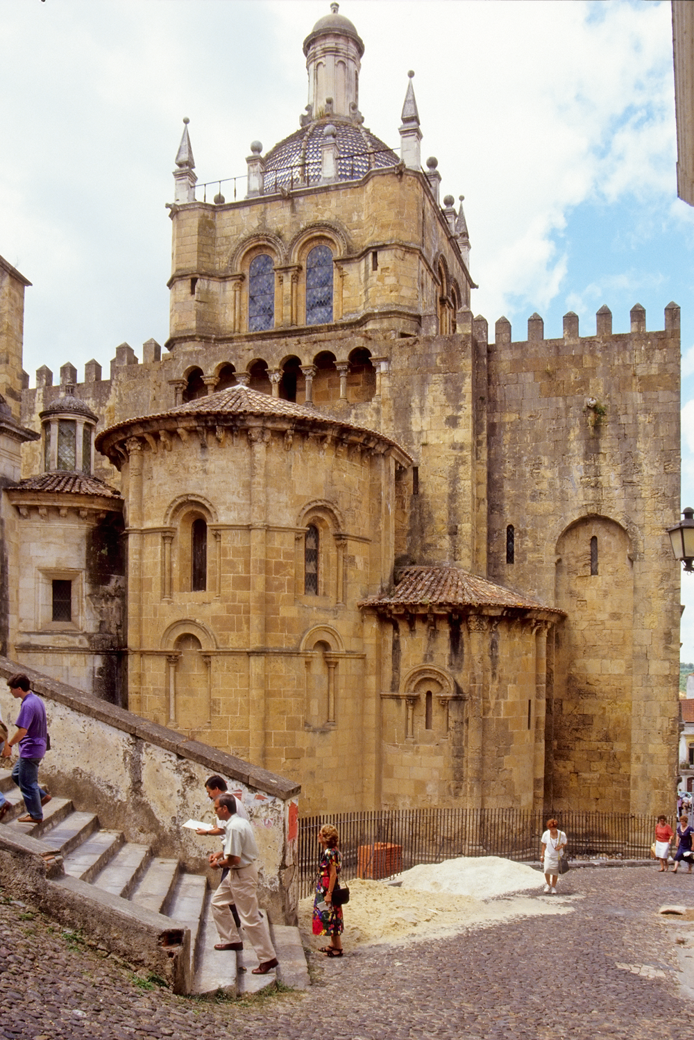 Romanesque apse of the Old Cathedral of Coimbra, Portugal